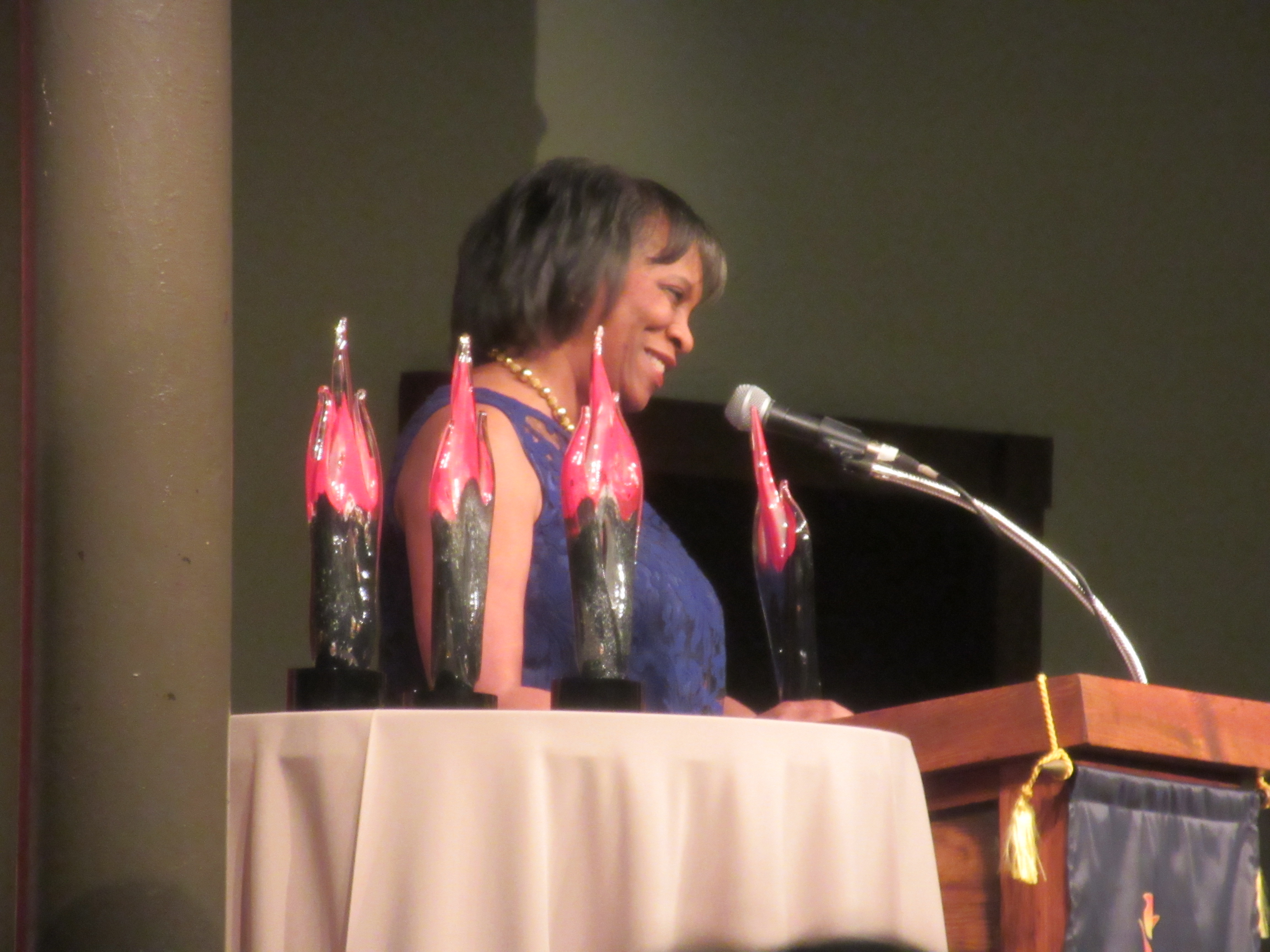 Dr. Adena Williams Loston at the United Communities of San Antonio 62nd Awards Dinner on March 8, 2016.